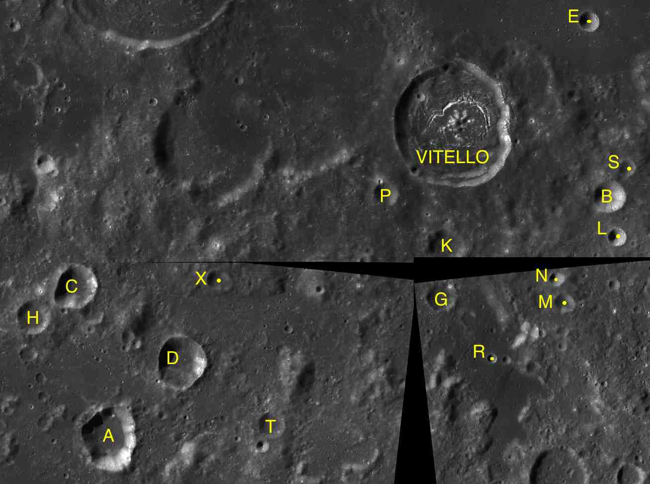 Parts of the charts LAC-93, LAC-110, LAC-111 used for the presentation